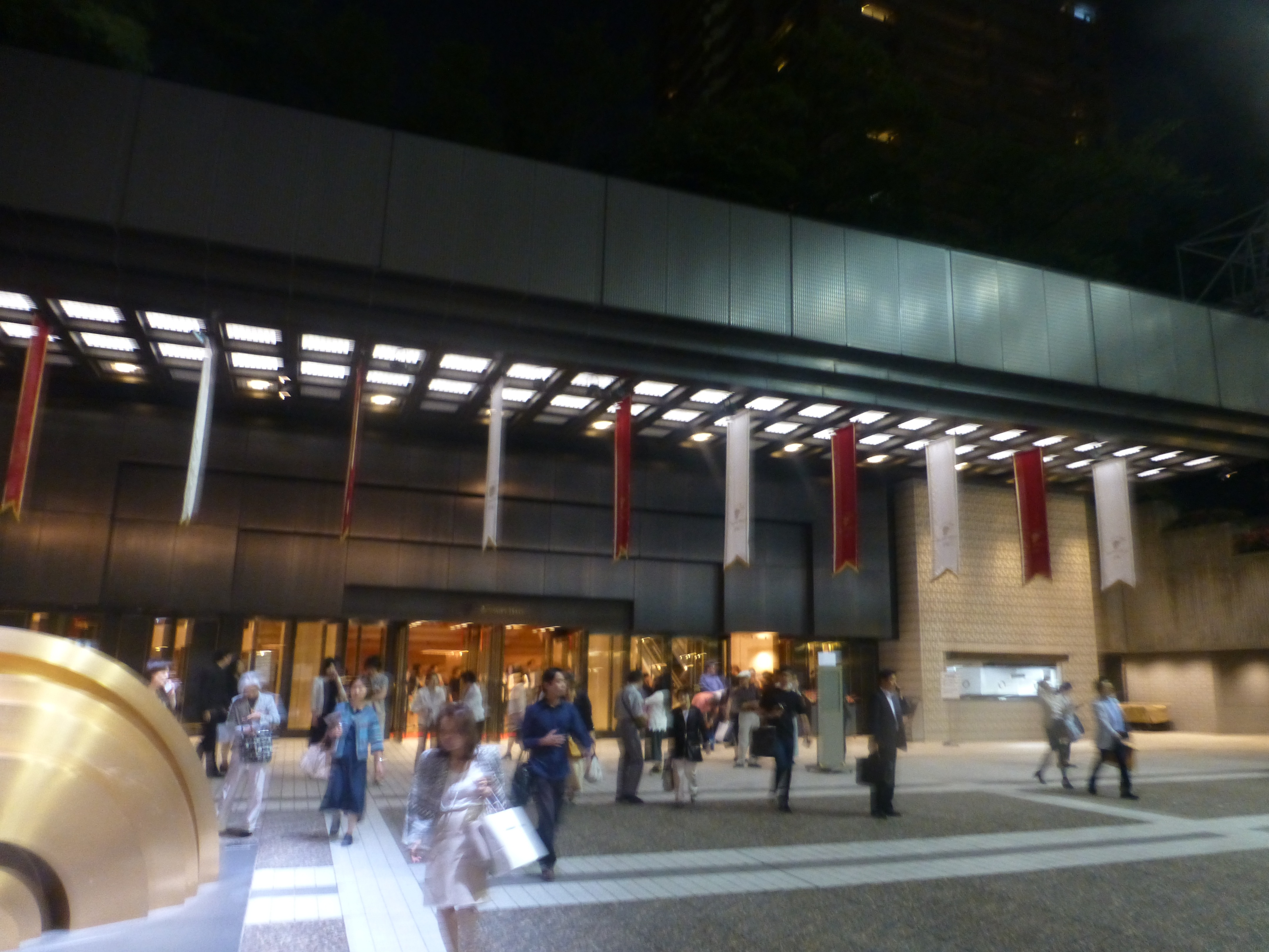 Suntory Hall at night